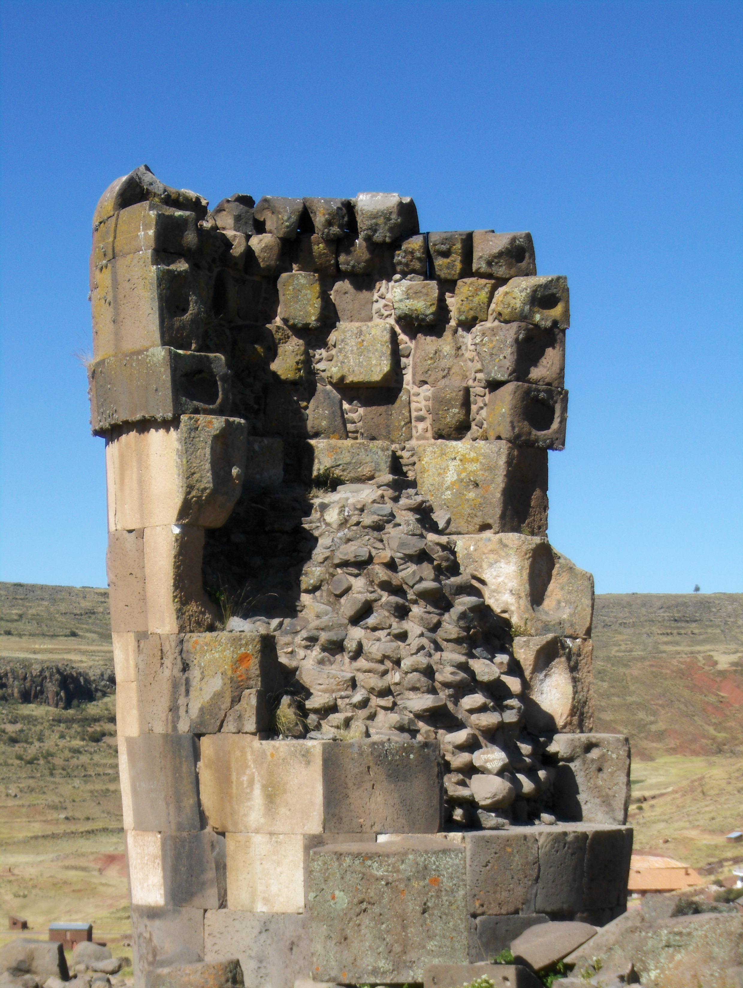 A closer view of one of the chullpas of Sillustani